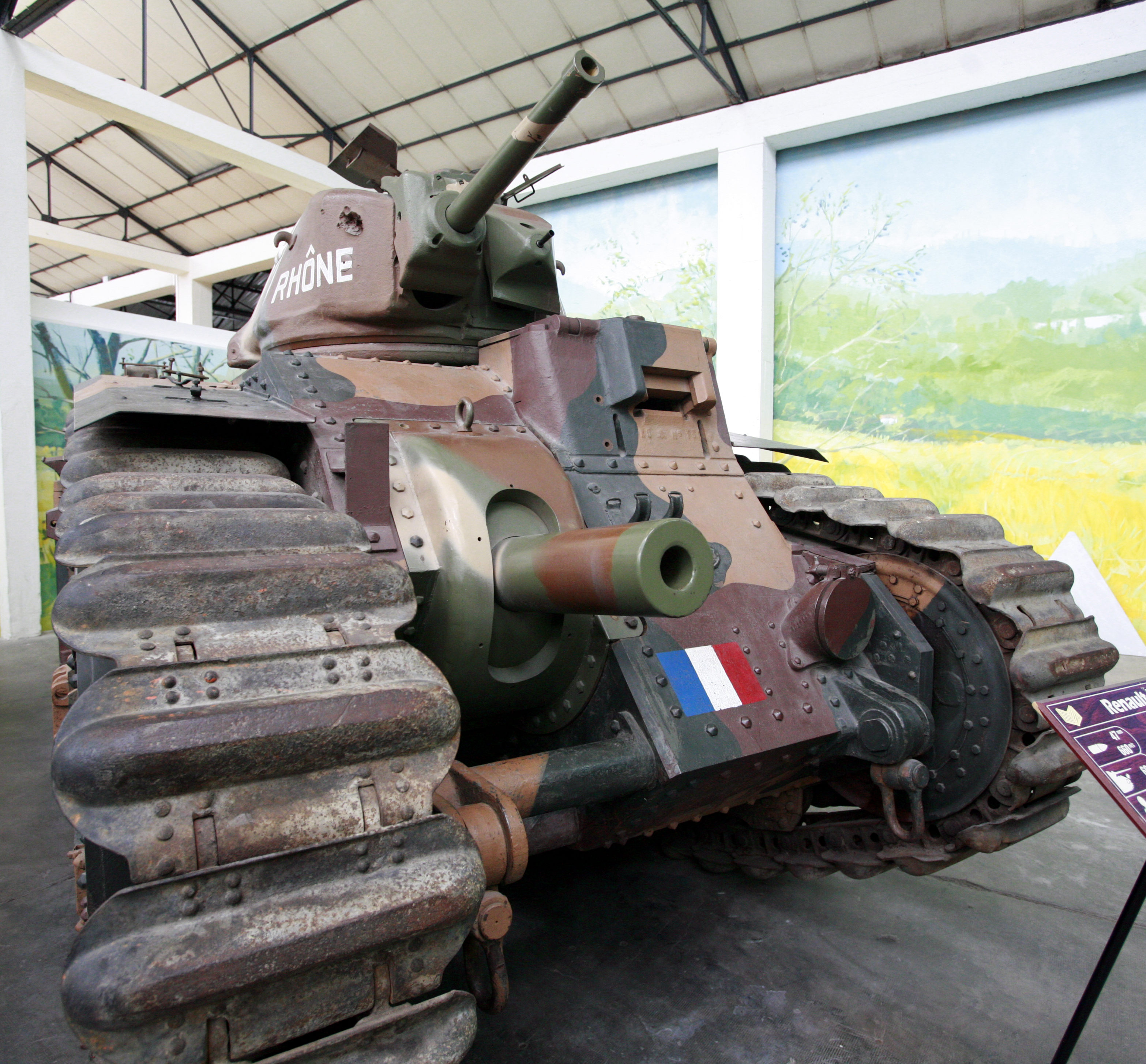 Char B1 bis. On display at Saumur Général Estienne museum.